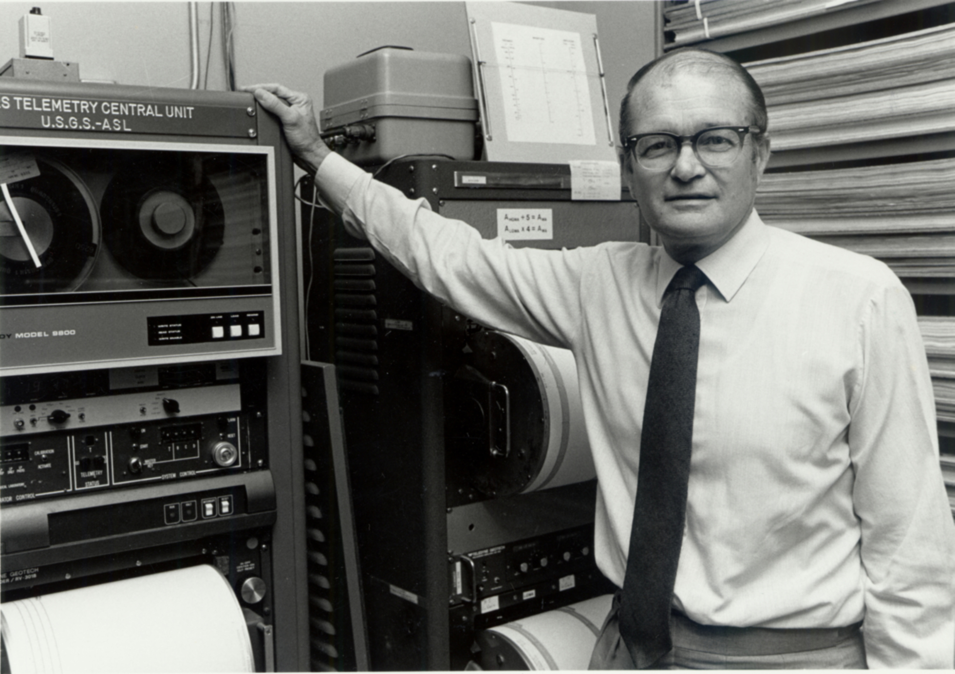 Seismologist Bruce Bolt, professor emeritus of earth and planetary science. (1986 photo)